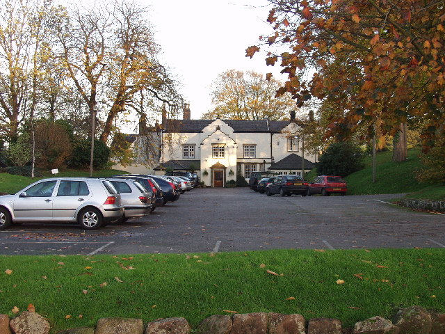 Pant-yr-ochain Inn. Rural Inn on the edge of town.